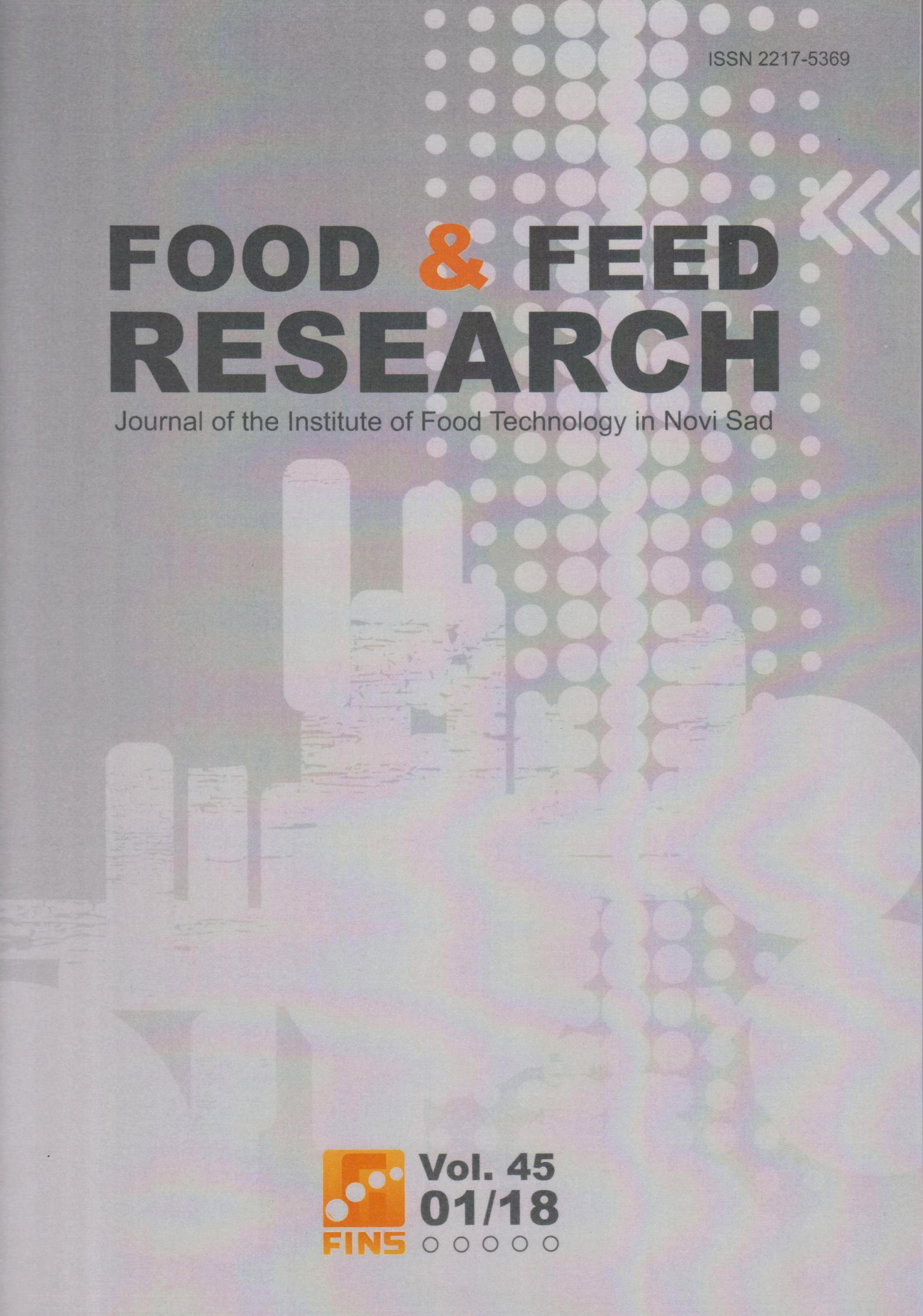 Cover of Serbian scientific journal Food and Feed Research, Novi Sad, Serbia